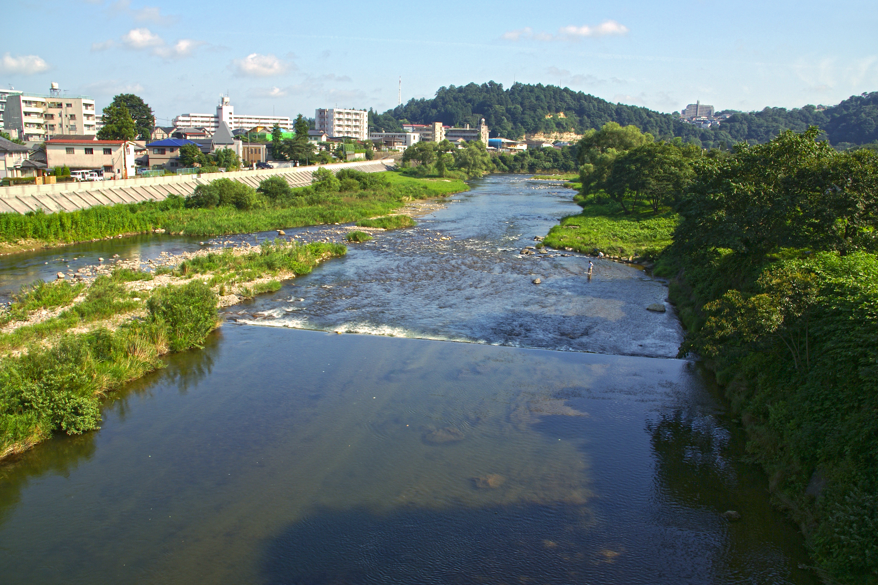 Hirose River at Sendai, Miyagi prefecture, Japan